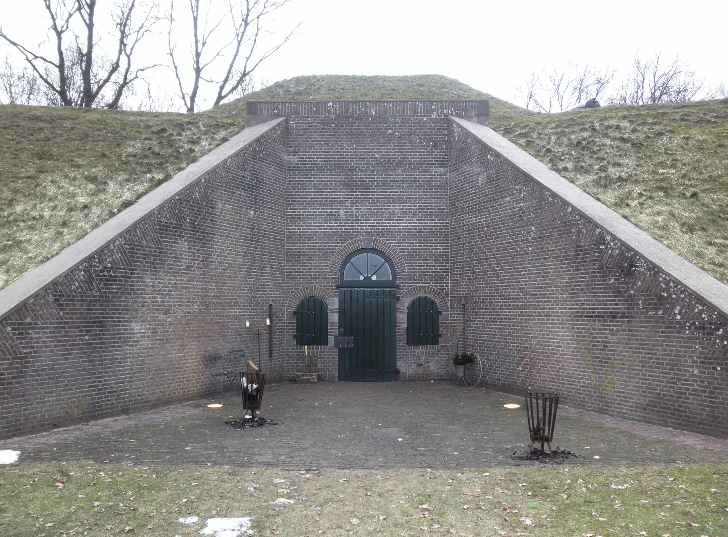 Fort werk 4 view on the poterne from inside the fort